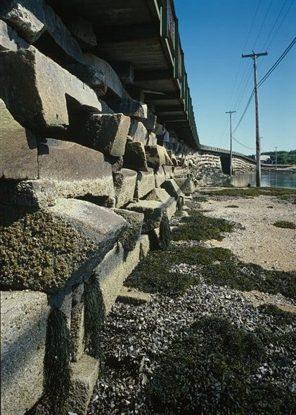 Bailey Island Bridge